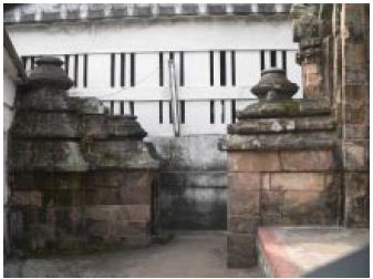 Guptesvara Siva temple is located within the Kapilesvara temple precinct, Kapilesvara village, Old Town, Bhubaneswar.